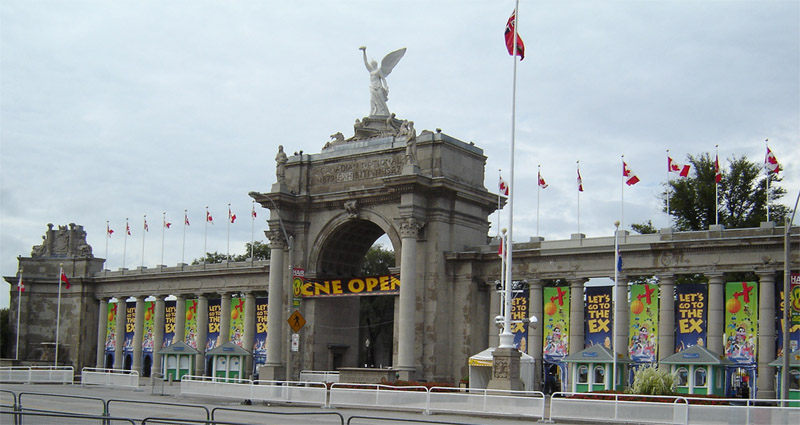 This is a photograph taken by Jesse Munroe (ExPlaceLover). It shows the Princes' Gate, the traditional entry to Exhibition Place in Toronto, Ontario.